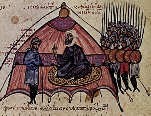 Skyllitzes Matritensis, fol. 97ra, detail. Miniature: Scene from the Arab siege of Benevento (in 871): The Arab Emir Soldanos (Mofareg ibn Salem) interrogates a Byzantine ambassador. References: Ioannis Scylitzae Synopsis Historiarum. Editio Princeps. Rec. Ioannes Thurn, p. 150, in: Corpus Fontium Historiae Byzantinae 5 Series Berolinensis, 1973 Tsamakda V.: The illustrated chronicle of Ioannes Skylitzes in Madrid, p.132 Grabar A., Manoussacas M.: L'illustration du manuscript de Skylitzes de Madrid, p. 61